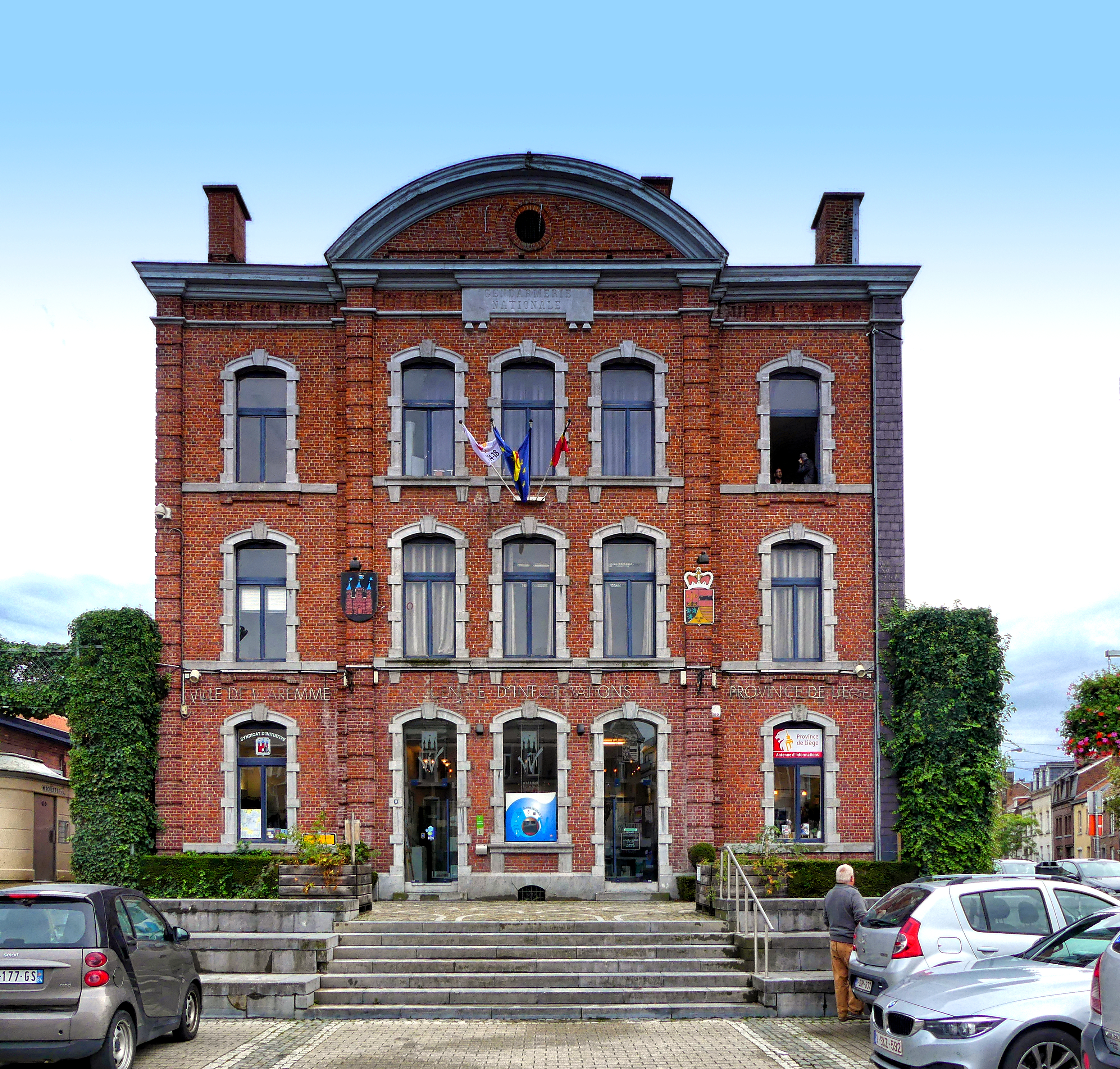 Royal Syndicat d'Initiative de Hesbaye in Waremme